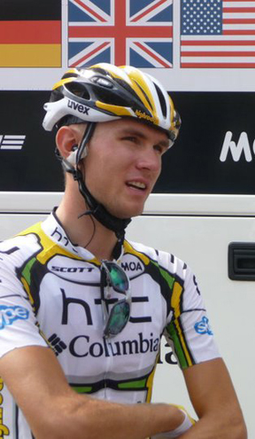 Tejay Van Garderen at the Vuelta Espana 2010